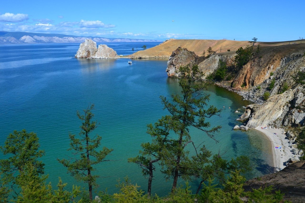 This image is related to the protected area of Russia number 3810274